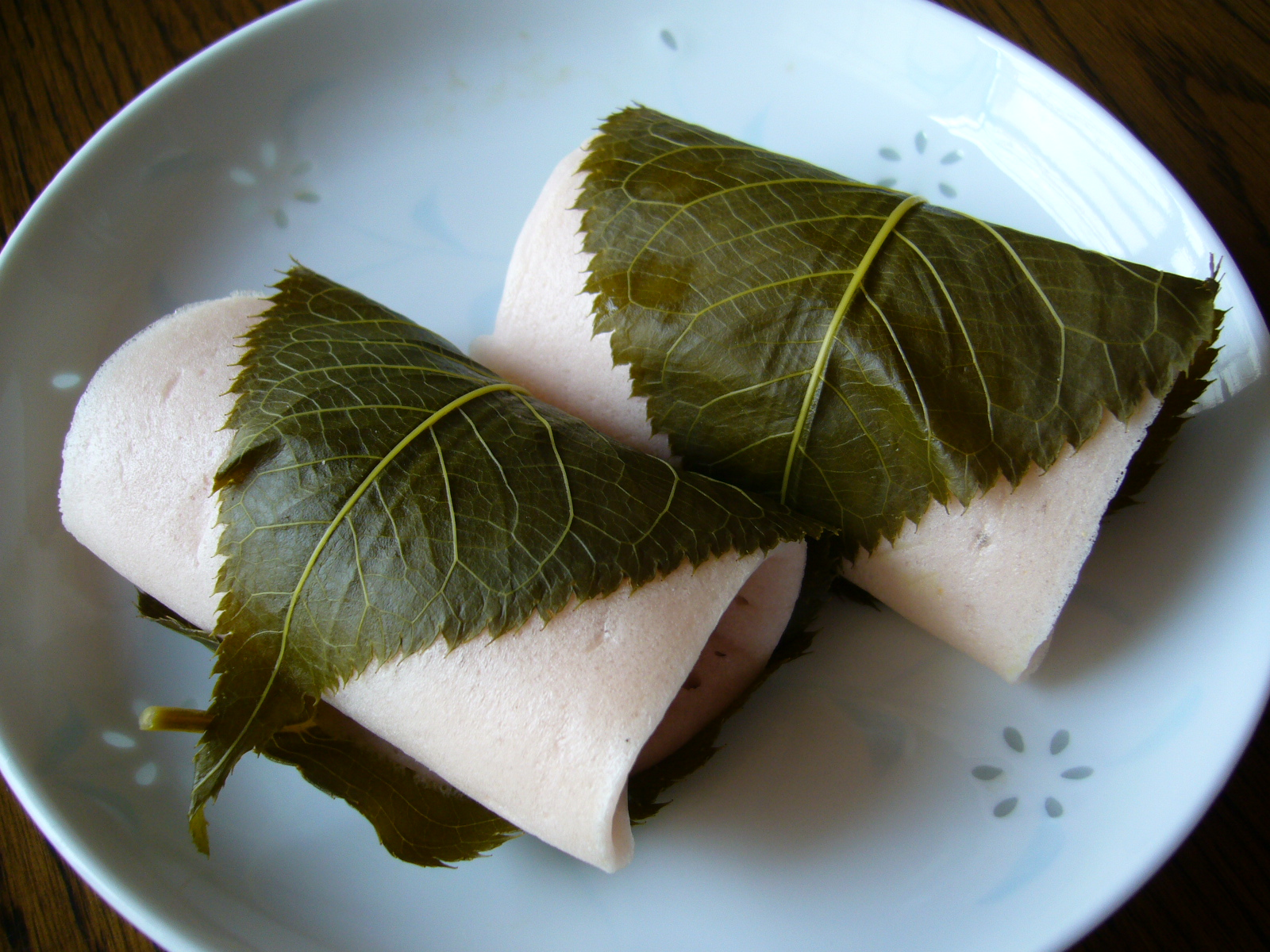 A rice cake filled with sweet bean paste and wrapped in a pickled cherry leaf,katori-city,japan